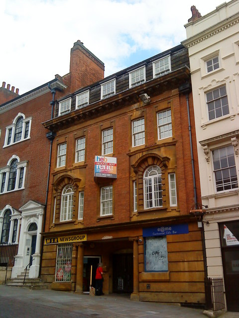 Enfield Chambers, 14-16 Low Pavement, Nottingham